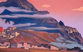 Work by Nicholas Roerich